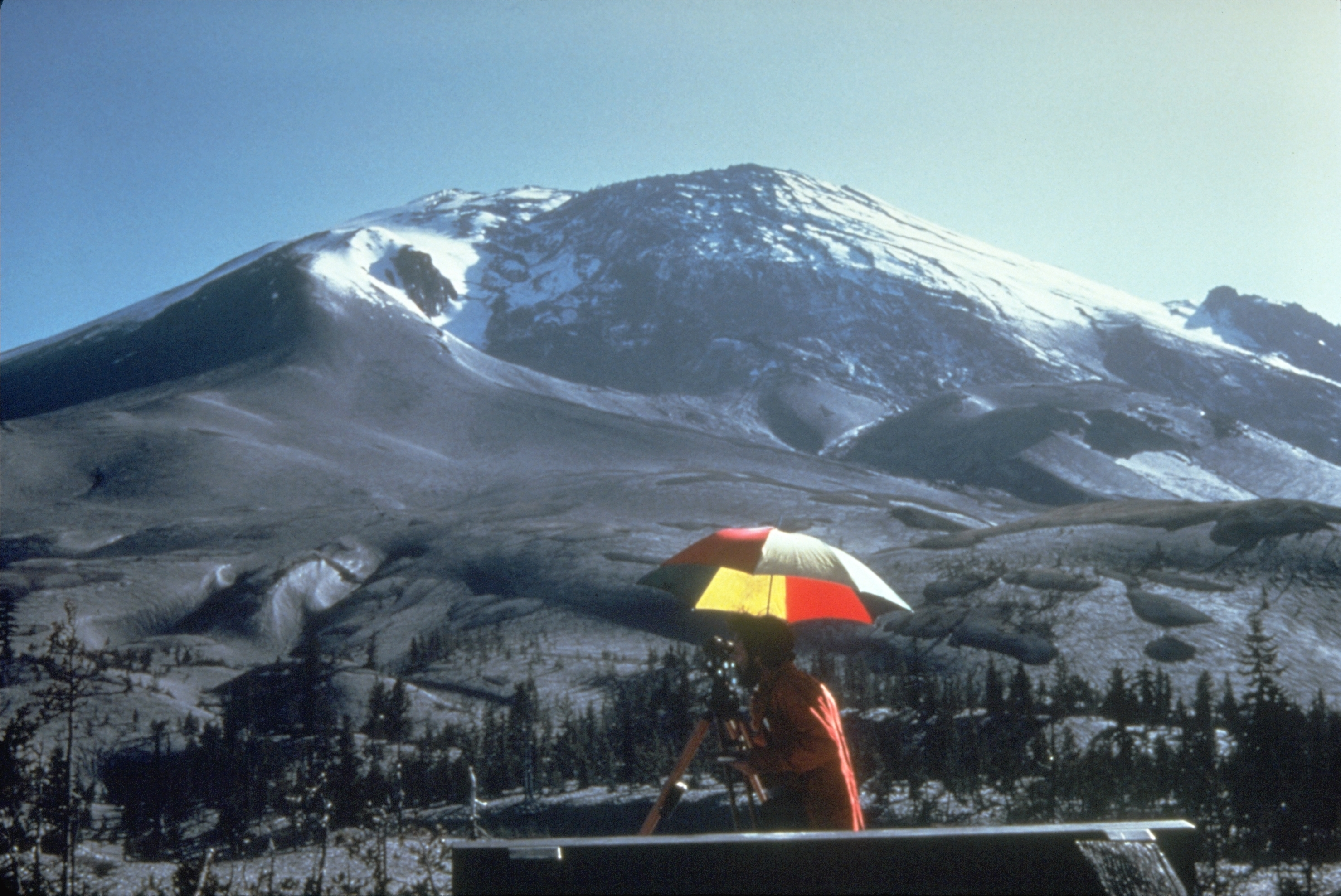 A "bulge" developed on the north side of Mount St. Helens as magma pushed up within the peak. Angle and slope-distance measurements to the bulge indicated it was growing at a rate of up to five feet (1.5 meters) per day. By May 17, part of the volcano's north side had been pushed upwards and outwards over 450 feet (135 meters). The view is from the northeast.